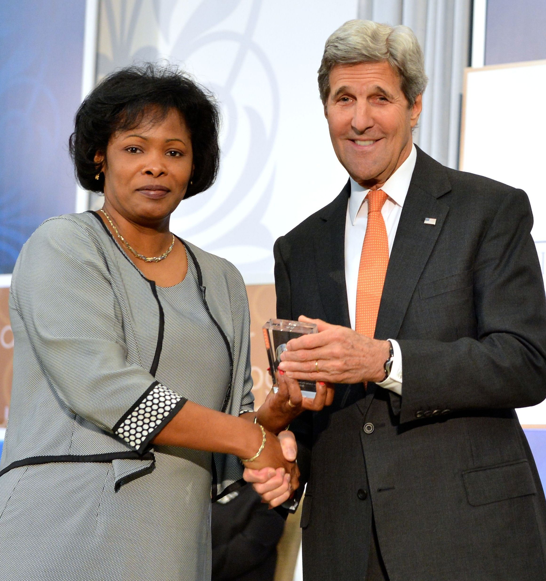 International Women of Courage Awards 2016